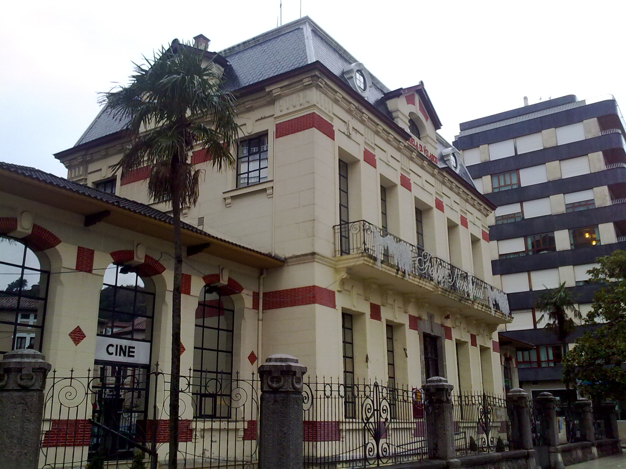 escuelas del Dr. Velasco